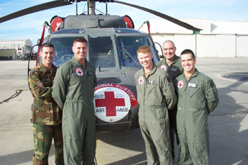 Team awarded militay citation and "Rescue of the Year" in 2002 from the 57th Medical